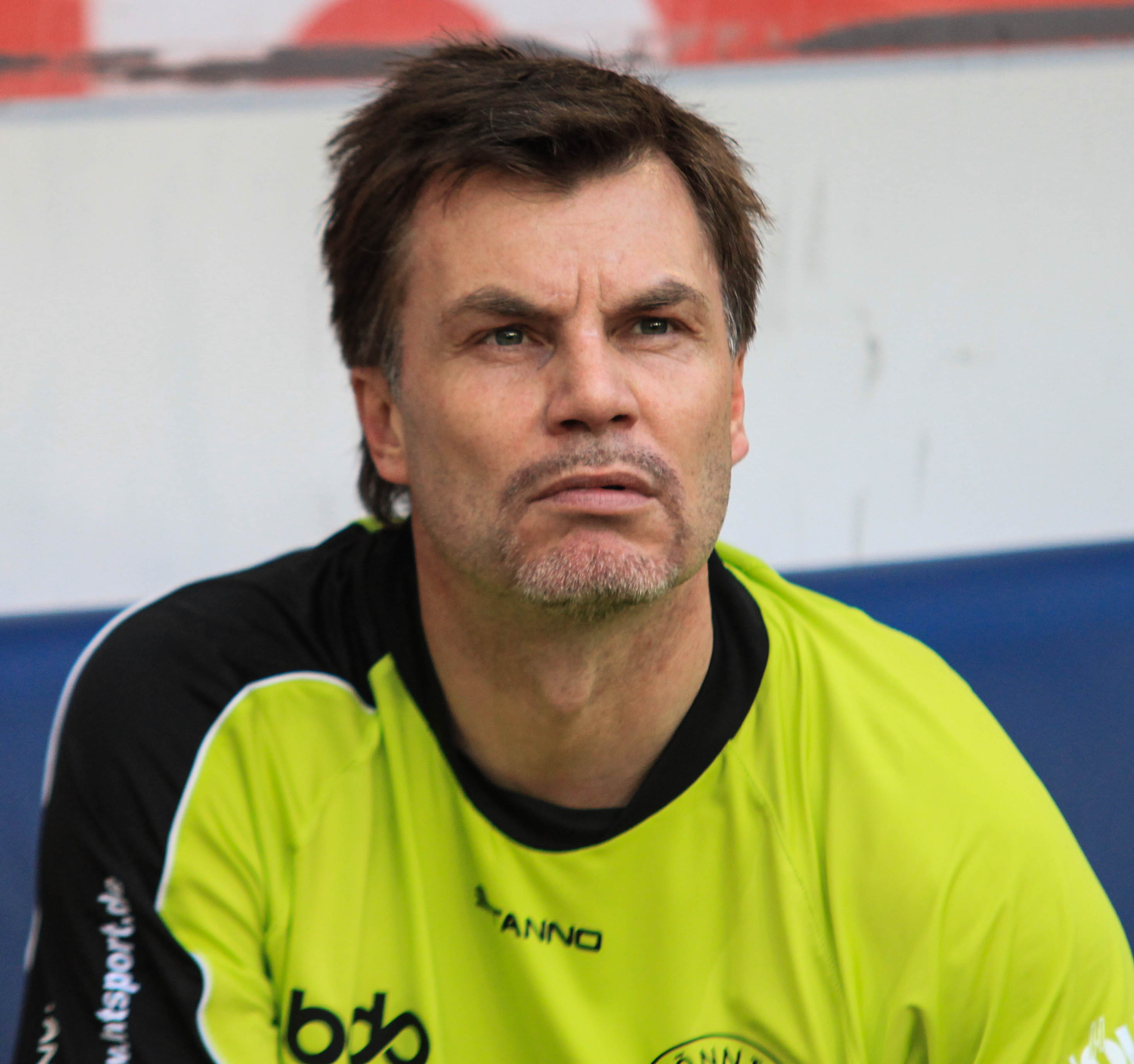 Former German footballer Thomas Helmer at the benefit match "Tönnies and Friends versus MSV-Traditionself", May 2012